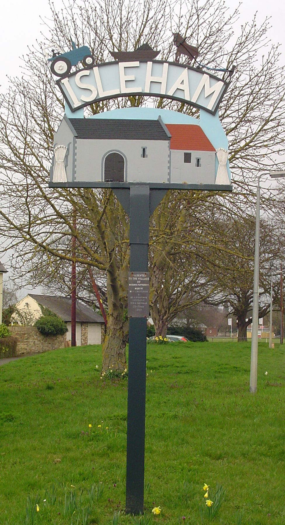 Signpost in Isleham